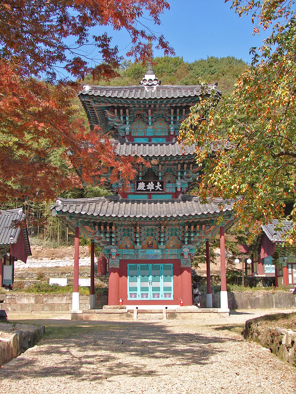 Ssangbongsa, or Ssangbong Temple (Ssang means 'twin' and Bong means 'peak' ), derives its name from the pair of twin peaks on the mountain behind this Buddhist temple. Ssangbongsa in located in Hwasun County, South Jeolla Province, South Korea. Ssangbongsa was built by Zen Priest Cheolgam in 868 during the Unified Silla Period. Daeungjeon at Ssangbongsa is one of two wood pagodas in Korea and is the main worship hall at the temple.